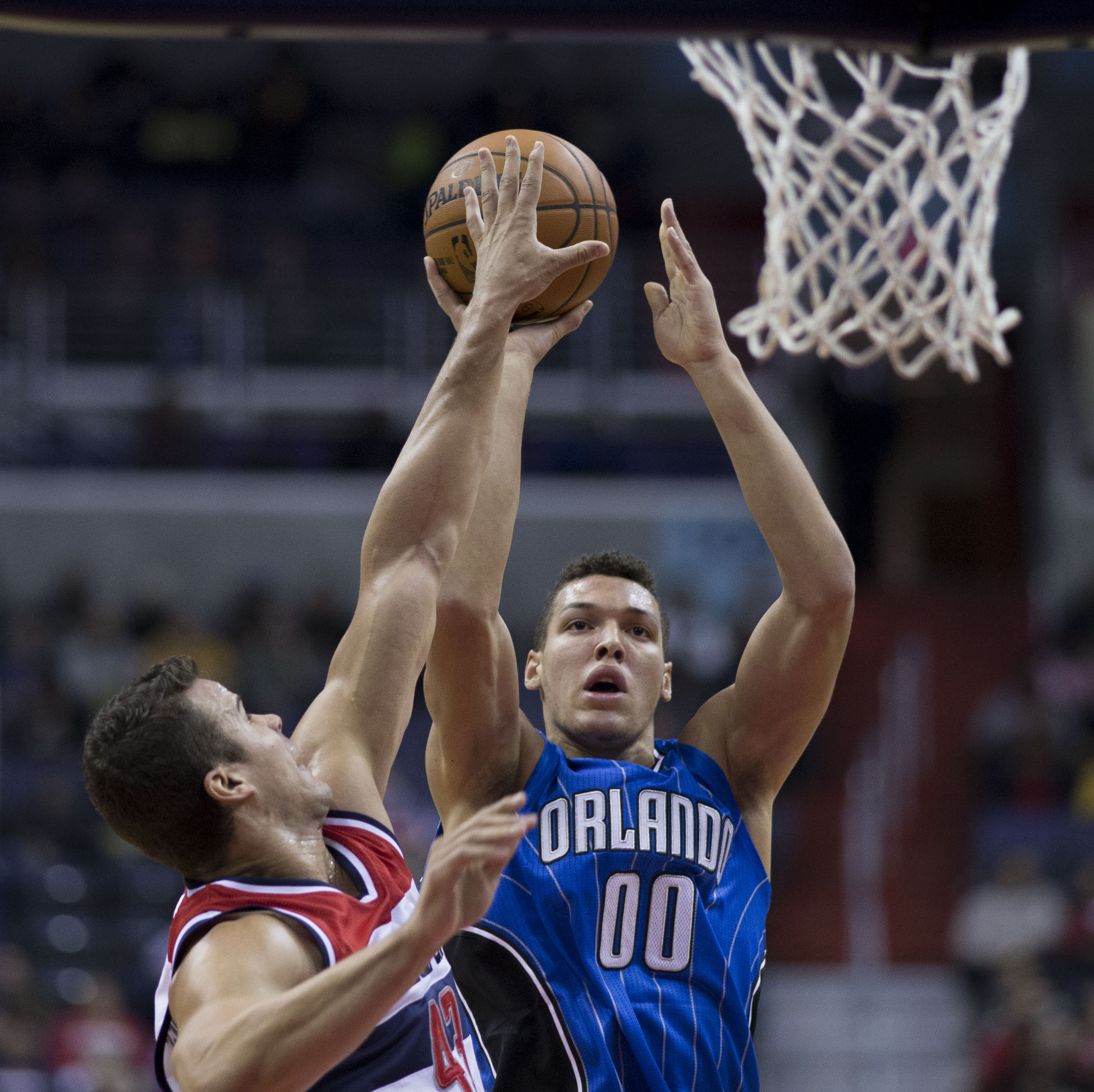 Aaron Gordon of the Orlando Magic in action against the Washington Wizards during the game on November 15, 2014 at Verizon Center in Washington, DC.